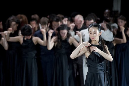 "Continu" (2010)